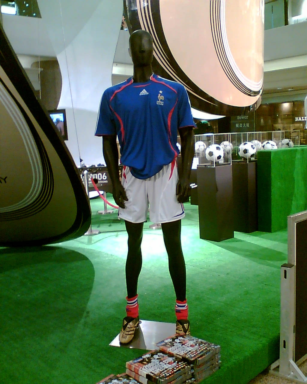 Category:香港圖像